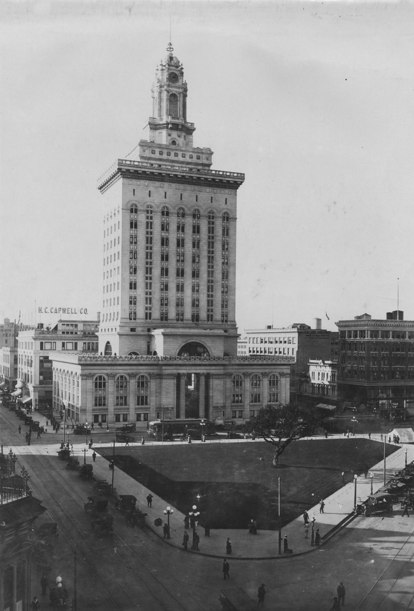 Promotional photograph of the new City Hall building in Oakland, California, circa 1917. Built in 1914 at a cost of US$2M, "this unique and beautiful building... symbolizes the aspirations and progress of the City." Photograph commissioned by Oakland Chamber of Commerce, Publicity Bureau. Photographer from Cheney Photo Advertising Co. Original photo part of Oakland Public Library, Oakland History Room. "Public domain. No restrictions on use."